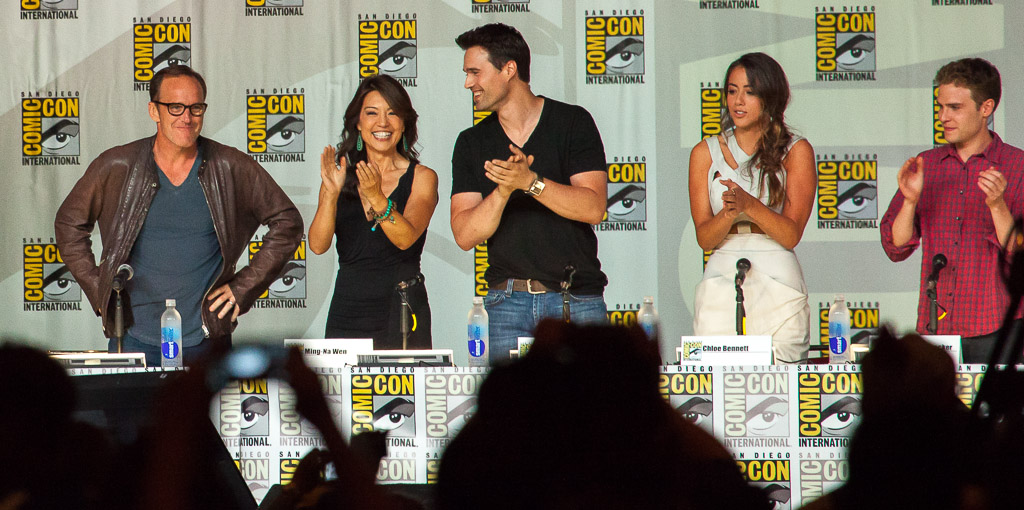 Marvel's Agents of S.H.I.E.L.D. panel at the 2013 San Diego Comic-Con International.